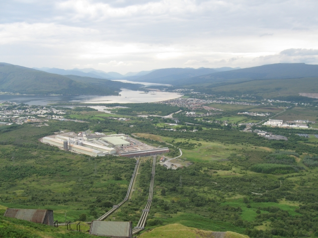 5 Water pipes for Hydroelectric plant: part of Lochaber hydroelectric scheme The Lochaber hydroelectric scheme is a power generation project constructed in the western Scottish Highlands after the First World War. It was intended to provide electricity for aluminium production in Fort William.The scheme was initially designed by engineer Charles Meik but after his death in 1923, the scheme’s realisation was left to William Halcrow, by then a partner in the firm originally founded by Meik’s father Thomas Meik. The project was finally sanctioned by Parliament in 1921, but construction did not start until 1924; the aluminium smelter was established in 1929 and took about 95% of the 82,000 kW of power generated. The scheme harnesses the headwaters of the Rivers Treig and Spean and the flood waters of the River Spey (plus a further eleven burns along the way). The Laggan Dam (213 m long and 55 m high) contained the flow of the Spean in a reservoir (Loch Laggan). A 4 km tunnel then linked this body of water with another reservoir (Loch Treig) contained by the Treig dam. From here, the main tunnel, until 1970 the longest water-carrying tunnel in the world, an enormous 24km long and 5m in diameter, was driven around the Ben Nevis massif. From the western mountainside, down five massive steel pipes, the water rushes towards the turbines in the power house at the smelting plant. In 2008 Rio Tinto Alcan announced an investment of £45m to upgrade the plant, including replacing the generators which have been in use since 1929 (!), safeguarding 600 jobs (allegedly, implausibly high figure) in the area.